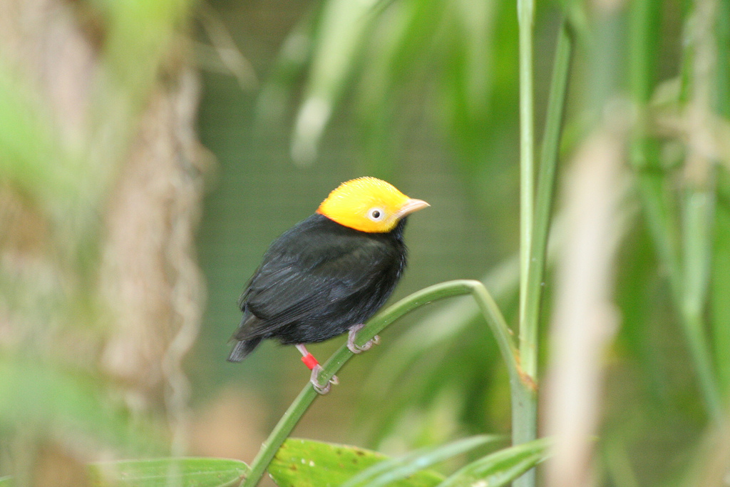 Golden-headed Manakin (Pipra erythrocephala)